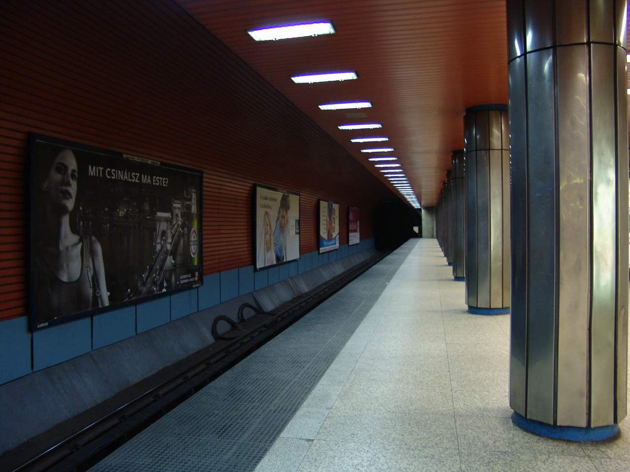 Line 3 (Budapest Metro), Ferenciek tere station